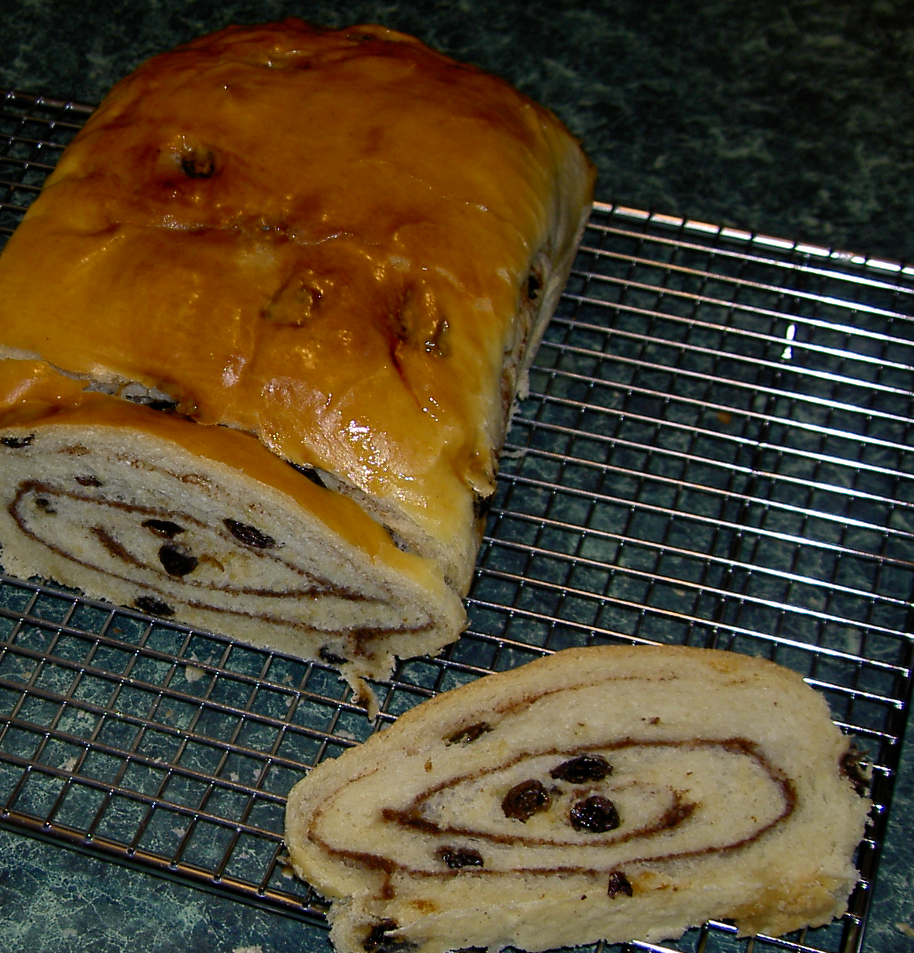 Homemade cinnamon swirl raisin bread cooling on a wire rack. Representative slice shows swirling.